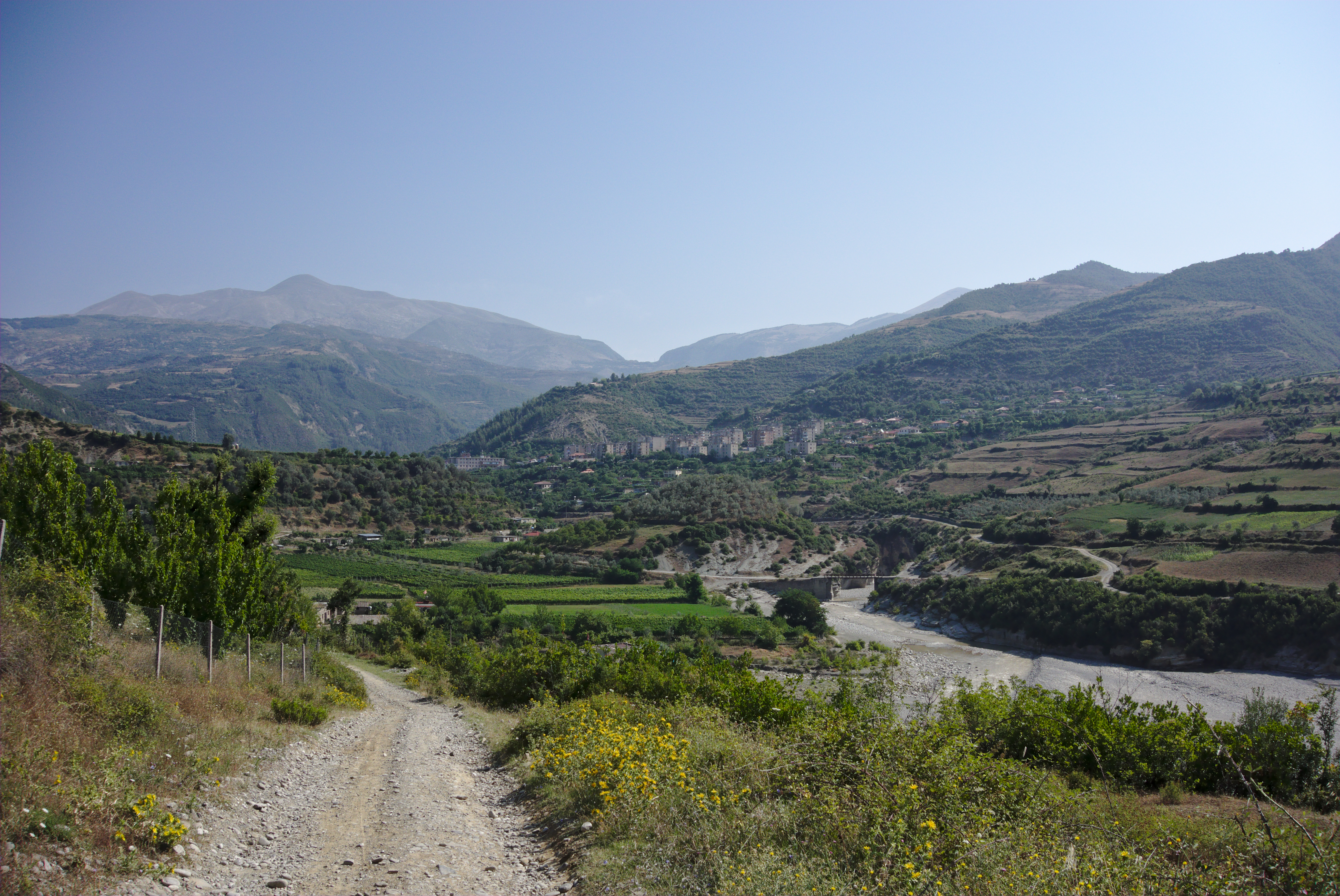 River Osum with bridge and the city of Çorovodë between agricultural landuses and hills. Behind the mountains Tomorr and Kulmakë. Seen from the south. (source name: dscRX008620_Landwirtschaft_und_Çorovodë_zwischen_Hügeln,_Osumbrücke,_dahinter_Berg_Tomorr.jpg)